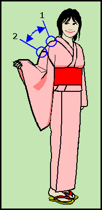 Modern Kimono's Nagagi's sleeves do not start from tips of shoulders (from joints where arms meet shoulders). This is due to how Kimonos are made from Tanmono, which are bolts of Kimono fabric. Stylized view of a woman in Kimono.